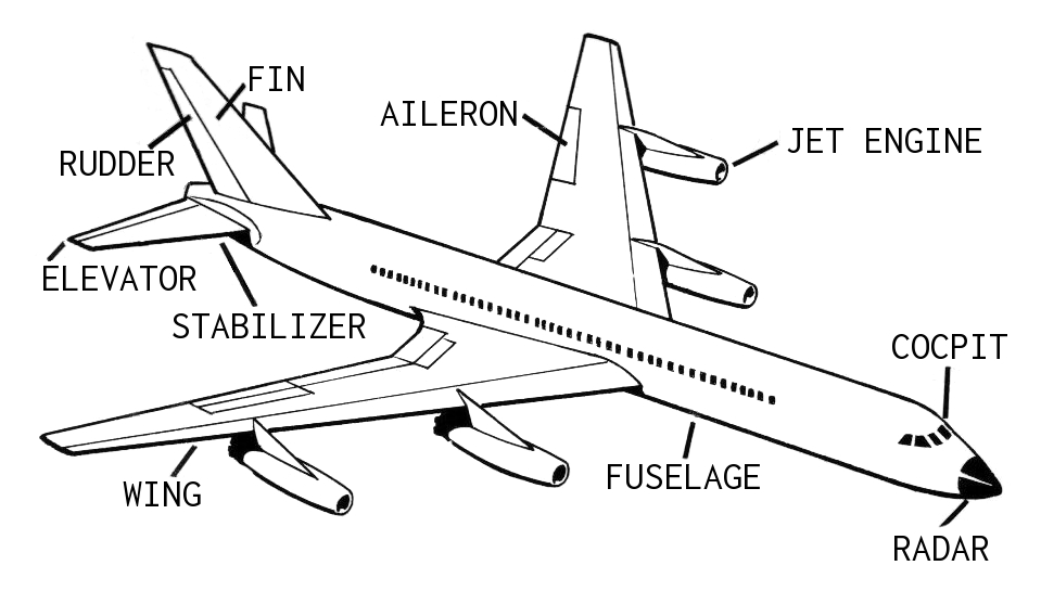 line art drawing of an airplane